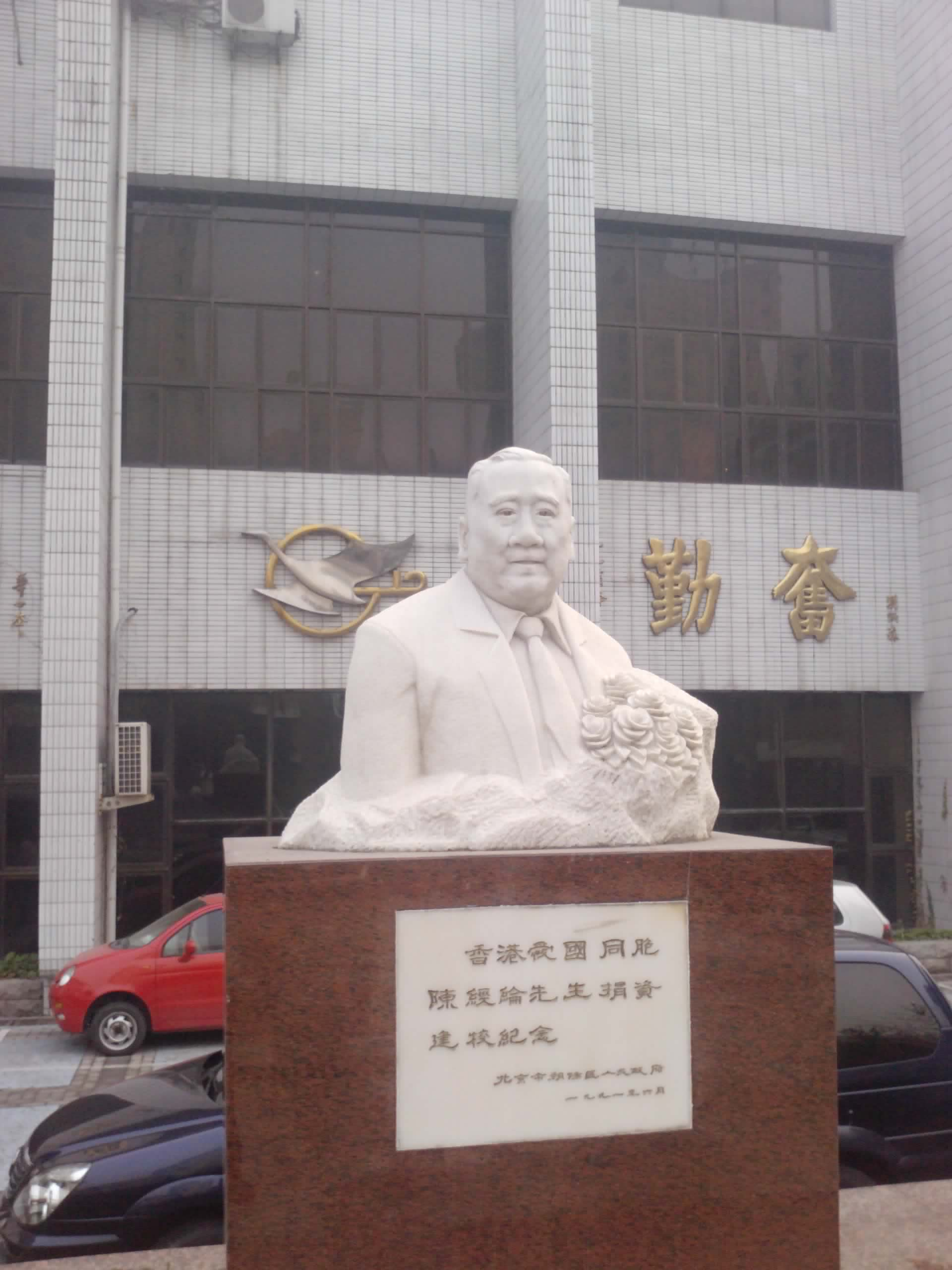 chenjinglun